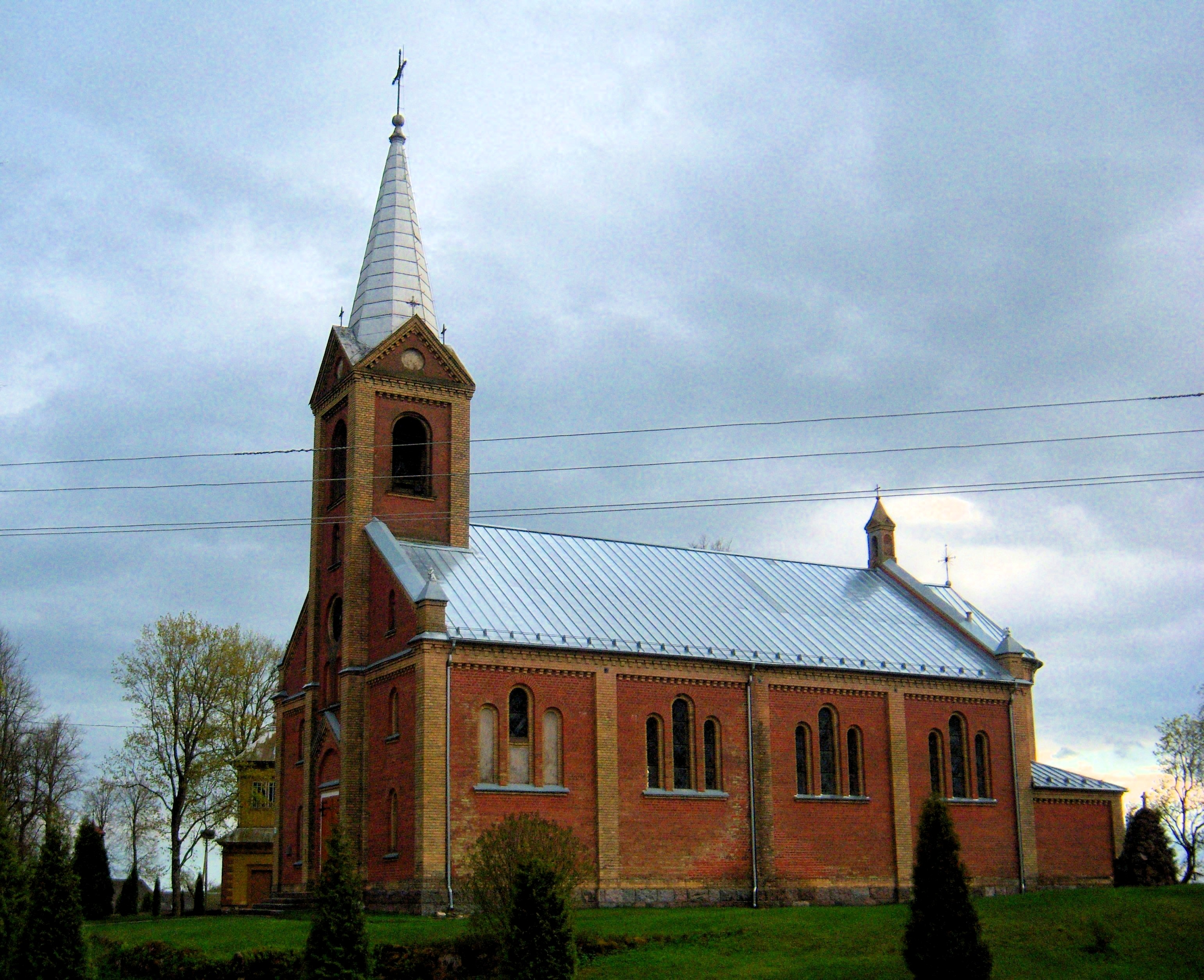 Holy Name of Jesus church in Šilai, Panevėžys District. Lithuania